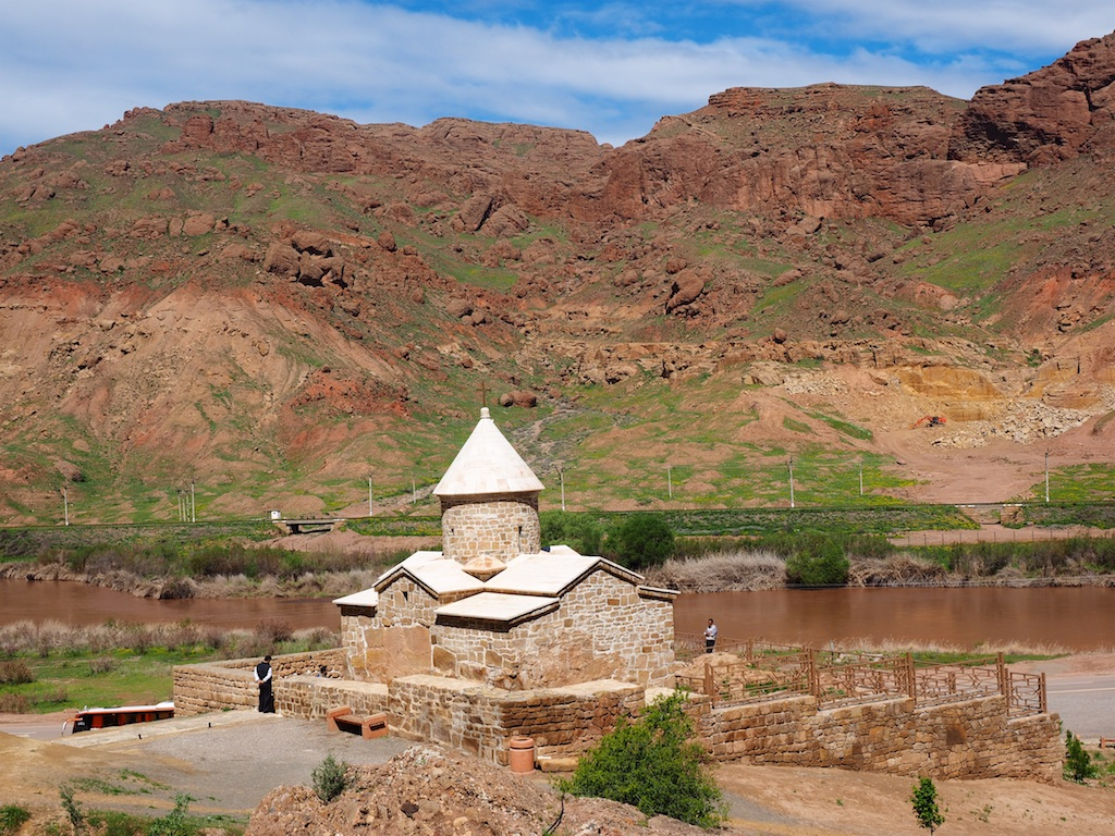 Chapel of Chupan in Jolfa province, Iran seen from the south. Azerbaijan is visible across the valley of the Aras River.